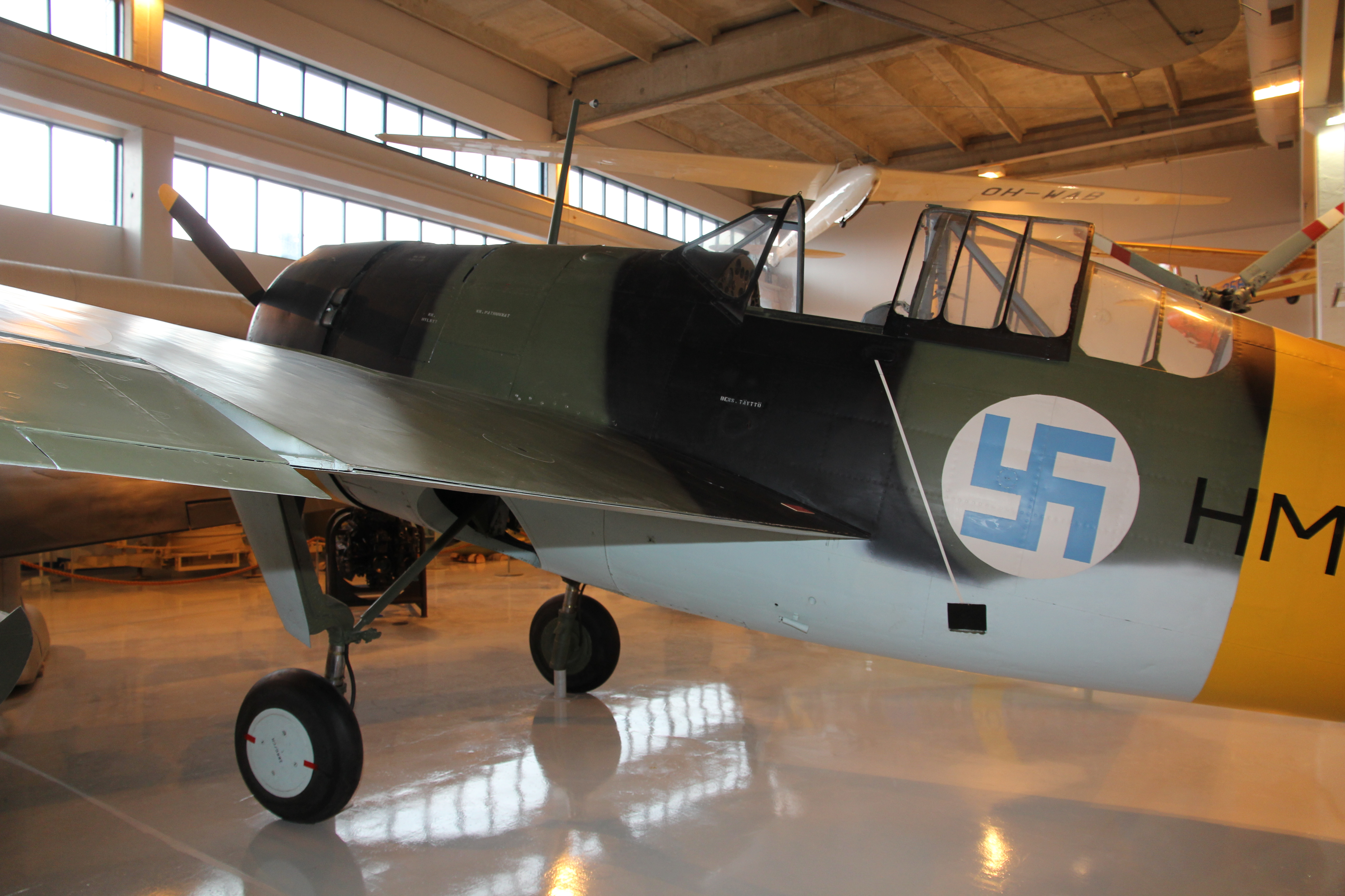 VL Humu prototype HM-671 in the Aviation Museum of Central Finland.